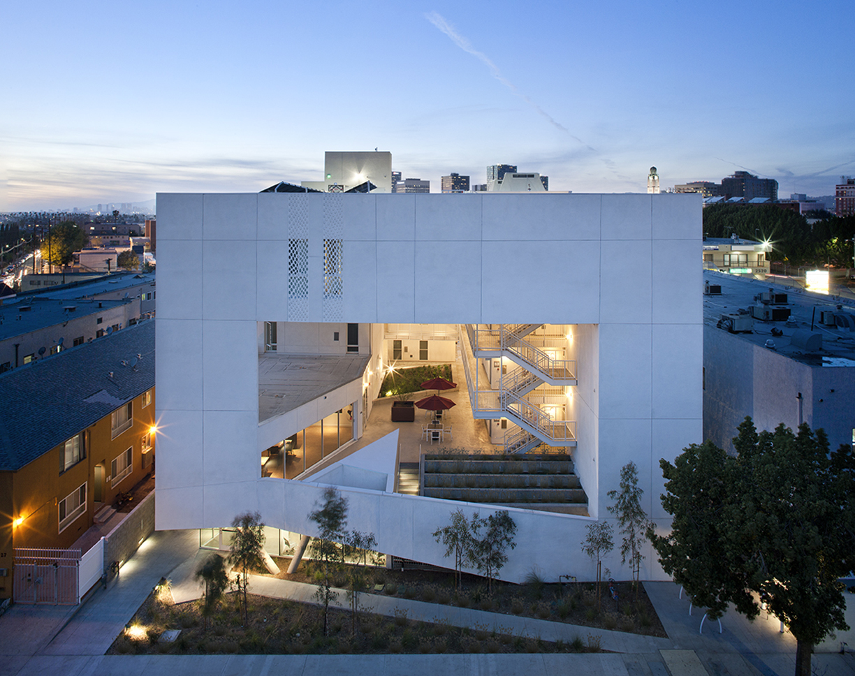 photograph of Brooks + Scarpa Architects 52 unit affordable veterans housing project in MacArthur Park area of Los Angeles, California.